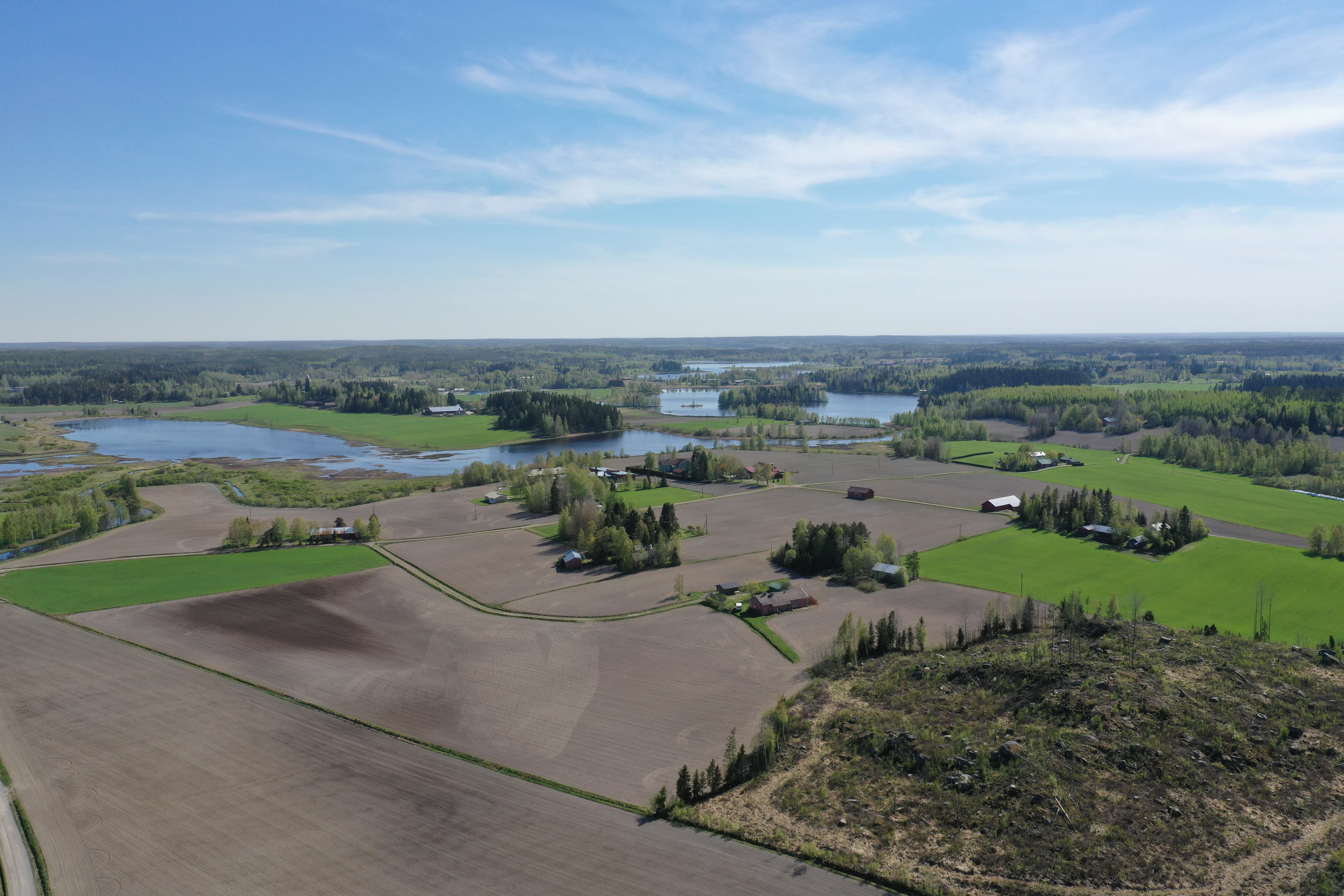 Koivuniemi village in Sastamala, Finland